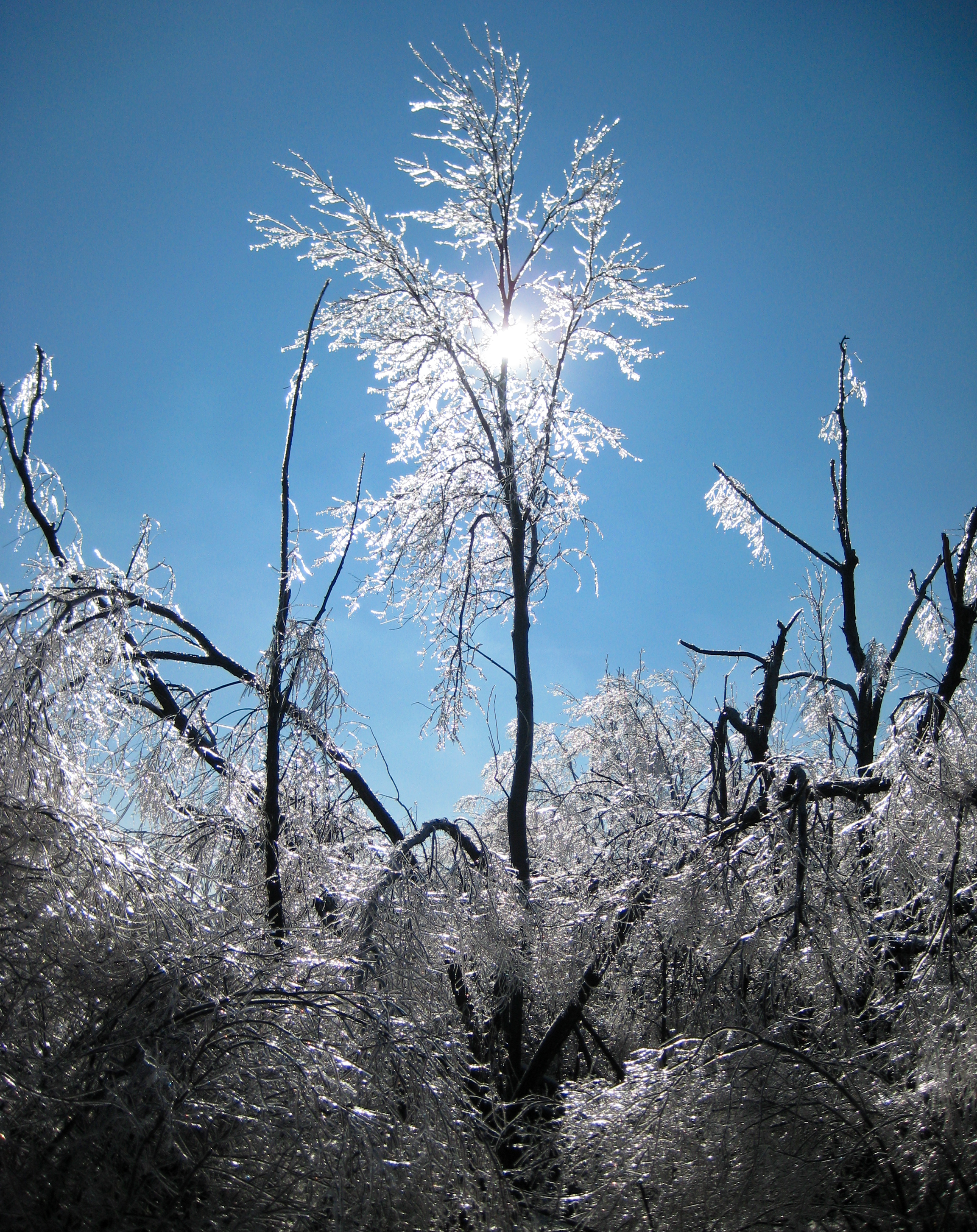 A lone tree among many survives the aftermath of an ice storm that hit St. Joseph Missouri, December 2007.